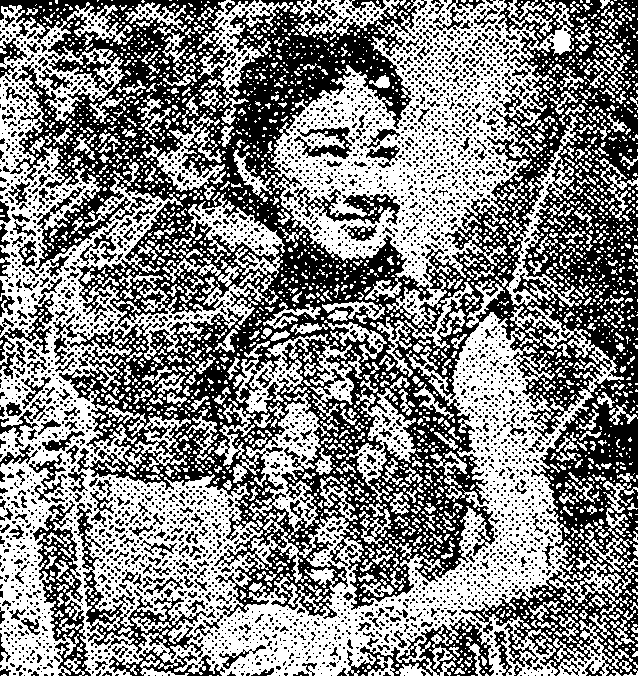 Ms. Violet Wong (1915 - ), a Hong Kong Movie Actress, Cantonese Opera Actress, Dancer 中文（香港）: 香港電影明星、粵劇演員、舞蹈員：紫羅蓮(黃紫羅)小姐(1915年 - )